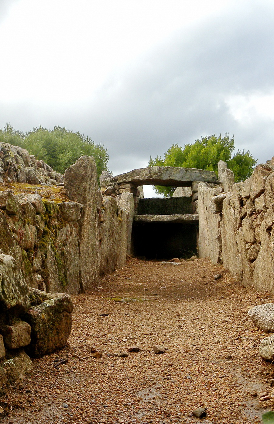 domus de janas in Arzachena-Li Lolghi